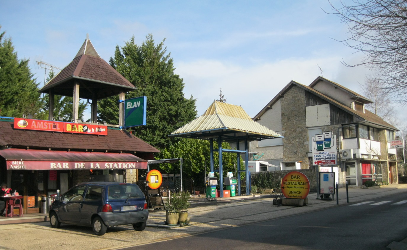 Downtown shops in the village Alvignac (Lot, France